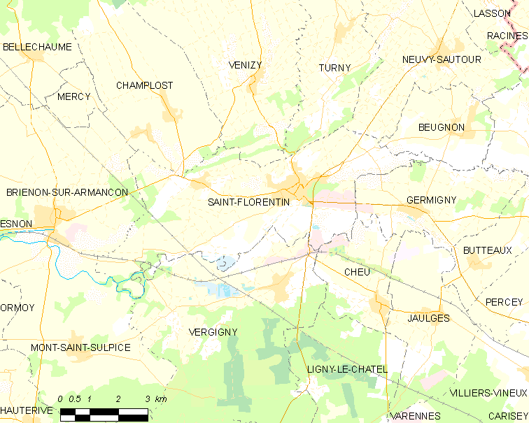 Map of French municipality Saint-Florentin